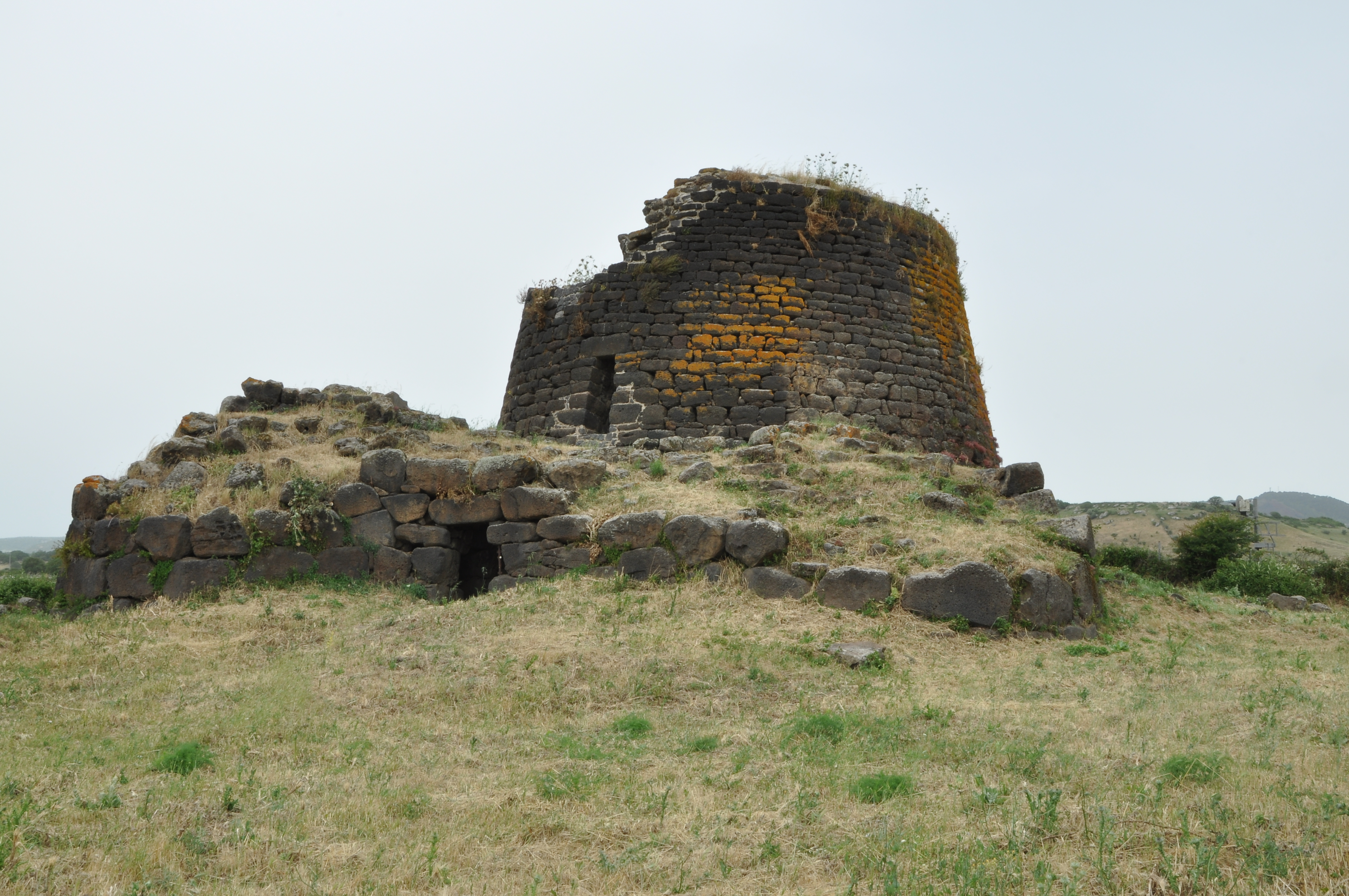 view from East of the Nuraghe Oes in Giave